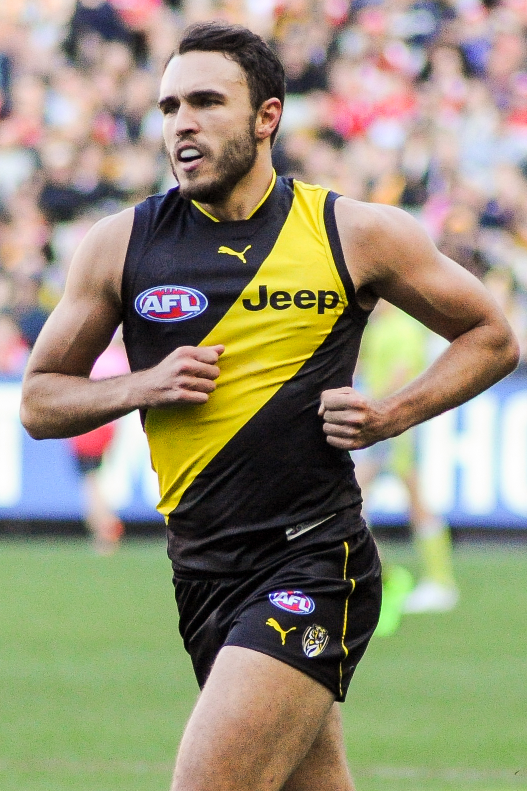 Shane Edwards during the AFL round thirteen match between Richmond and Sydney on 17 June 2017 at the Melbourne Cricket Ground in Melbourne, Victoria.